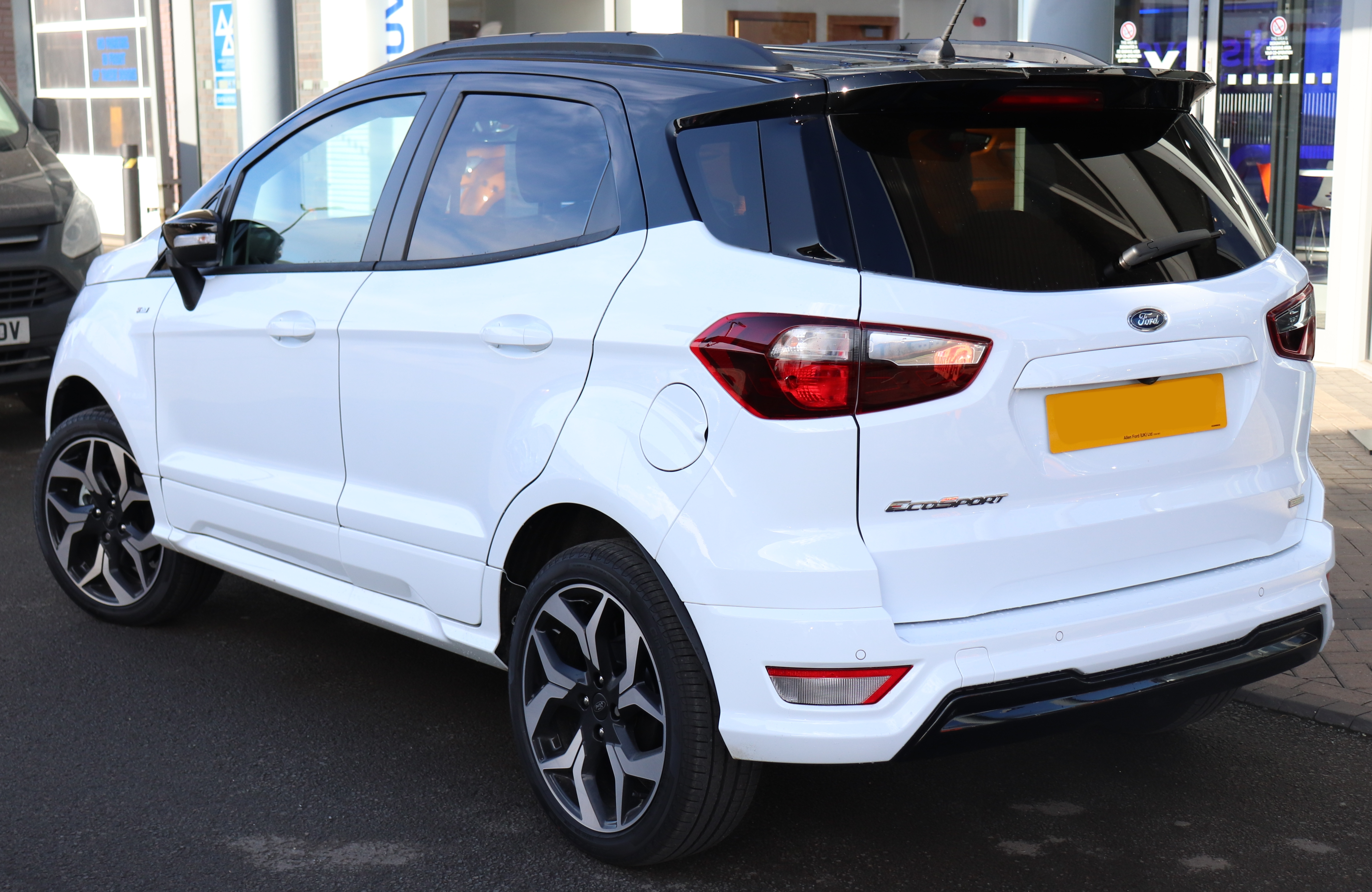 2018 Ford Ecosport ST-Line facelift 1.0 Rear Taken in Leamington Spa